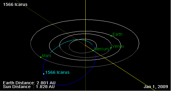 1566 Icarus orbit, and his position on 01 Jan 2009 (NASA Orbit Viewer applet)